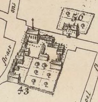 Detail of 1695 map by J. Laboureur & Josse van der Baren, Bruxella, nobilissima Brabantiæ civitas